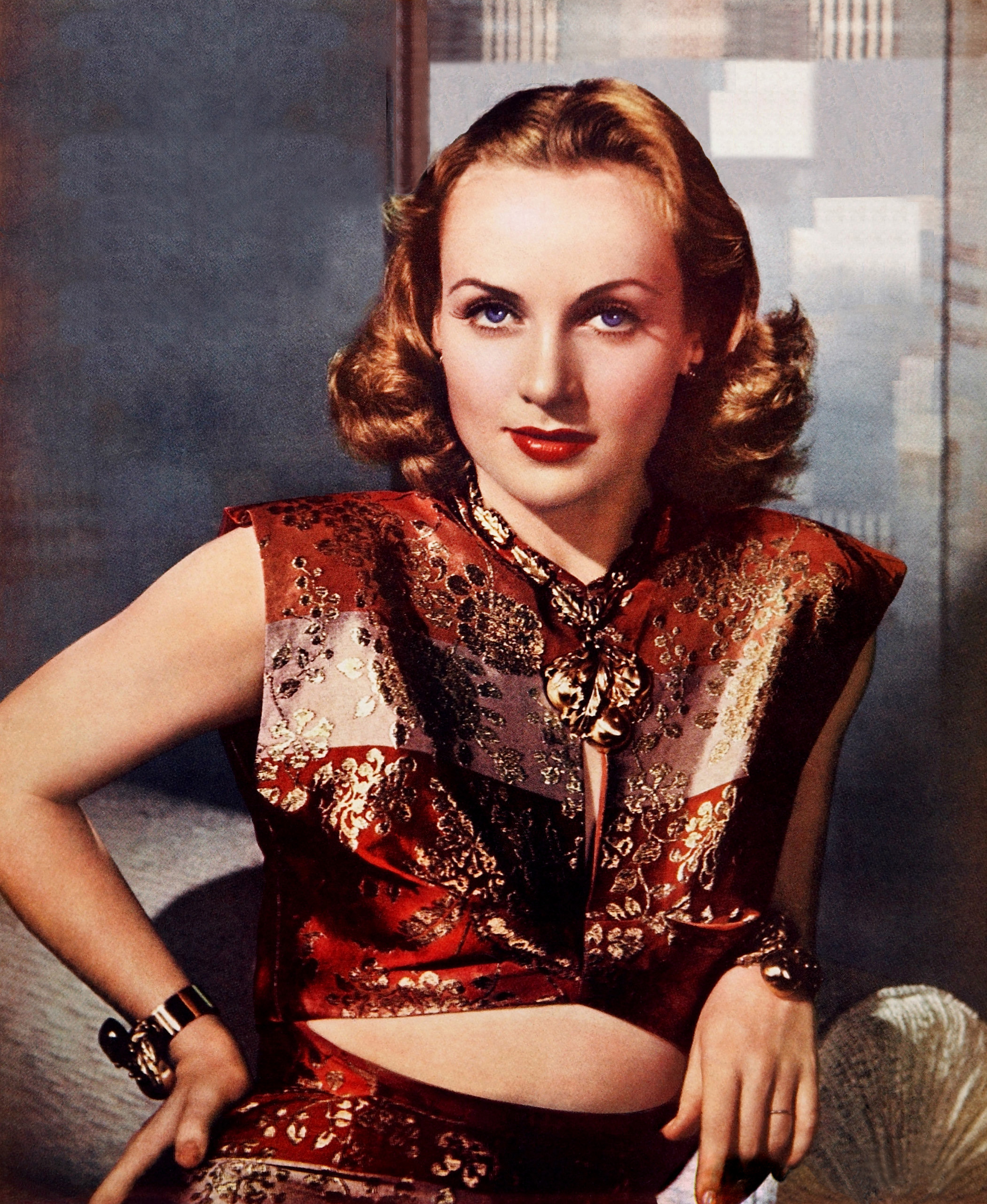 Photo of Carole Lombard from the cover of the January 1940 issue of Photoplay magazine. Photographer: Paul Hesse (1896 – 1973)